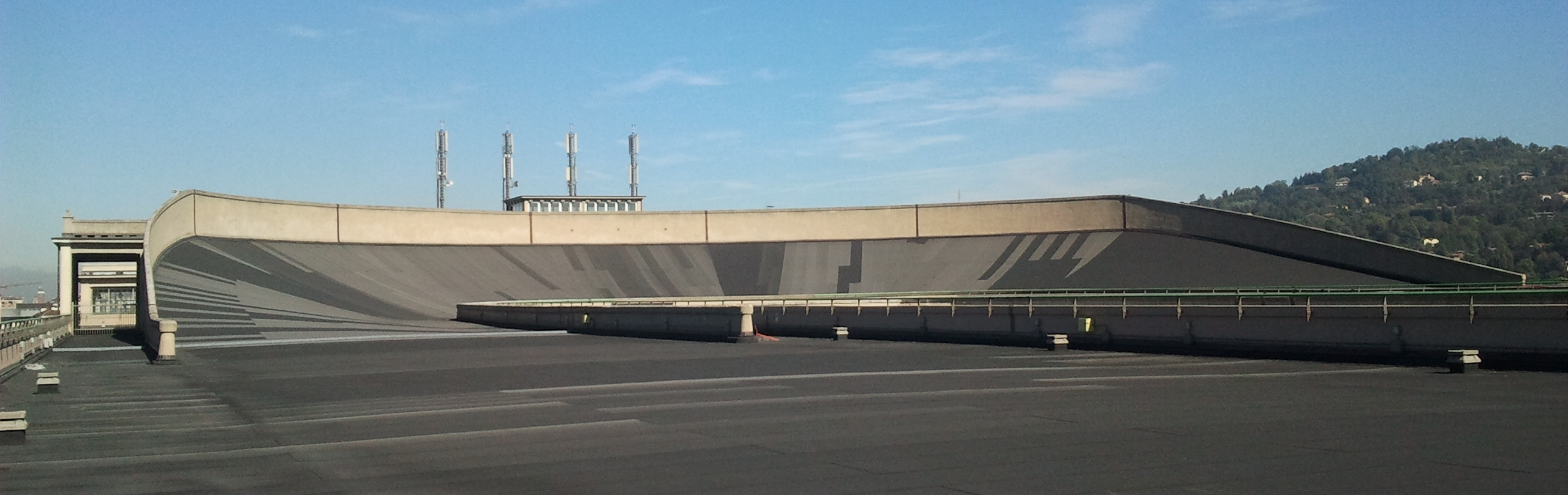 Fiat Lingotto. Torino. Italy